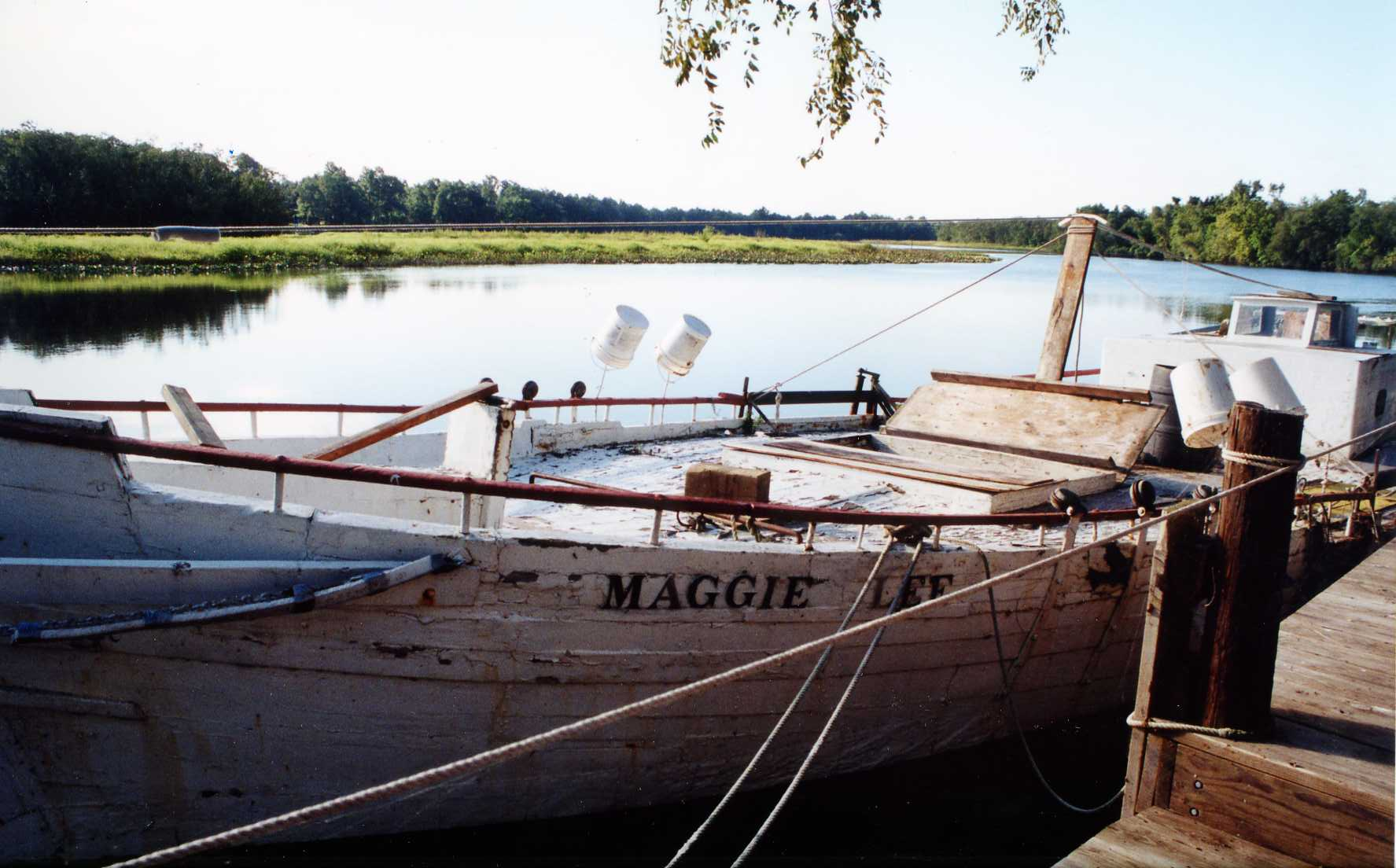 The Maggie Lee, anchored behind Baugh's in Denton/ Scanned from the Preservation Maryland physical photograph collection.